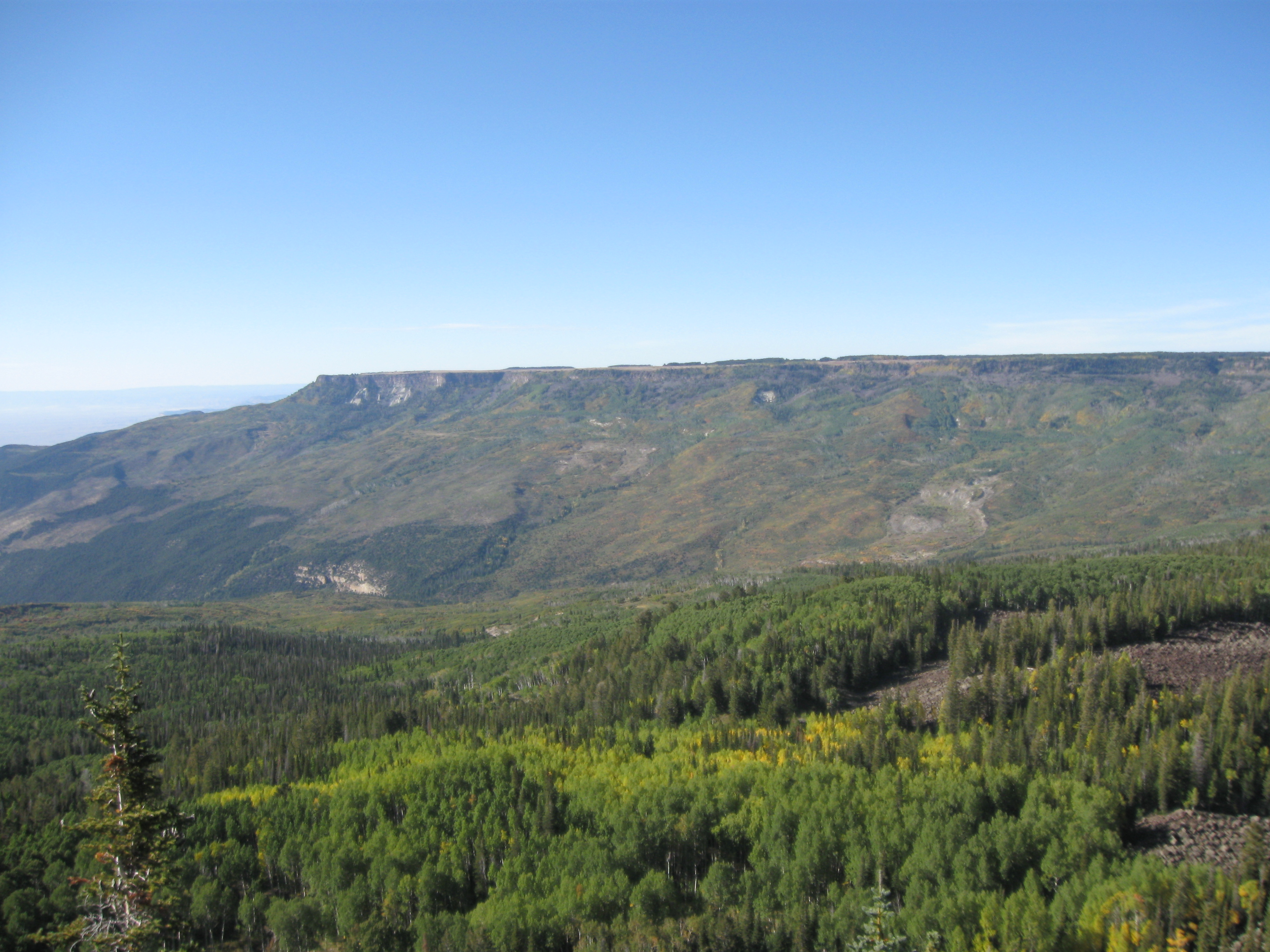 This is the NorthWestern edge of Grand Mesa, Colorado. This photo is looking North. This photo was taken on September 24, 2011.